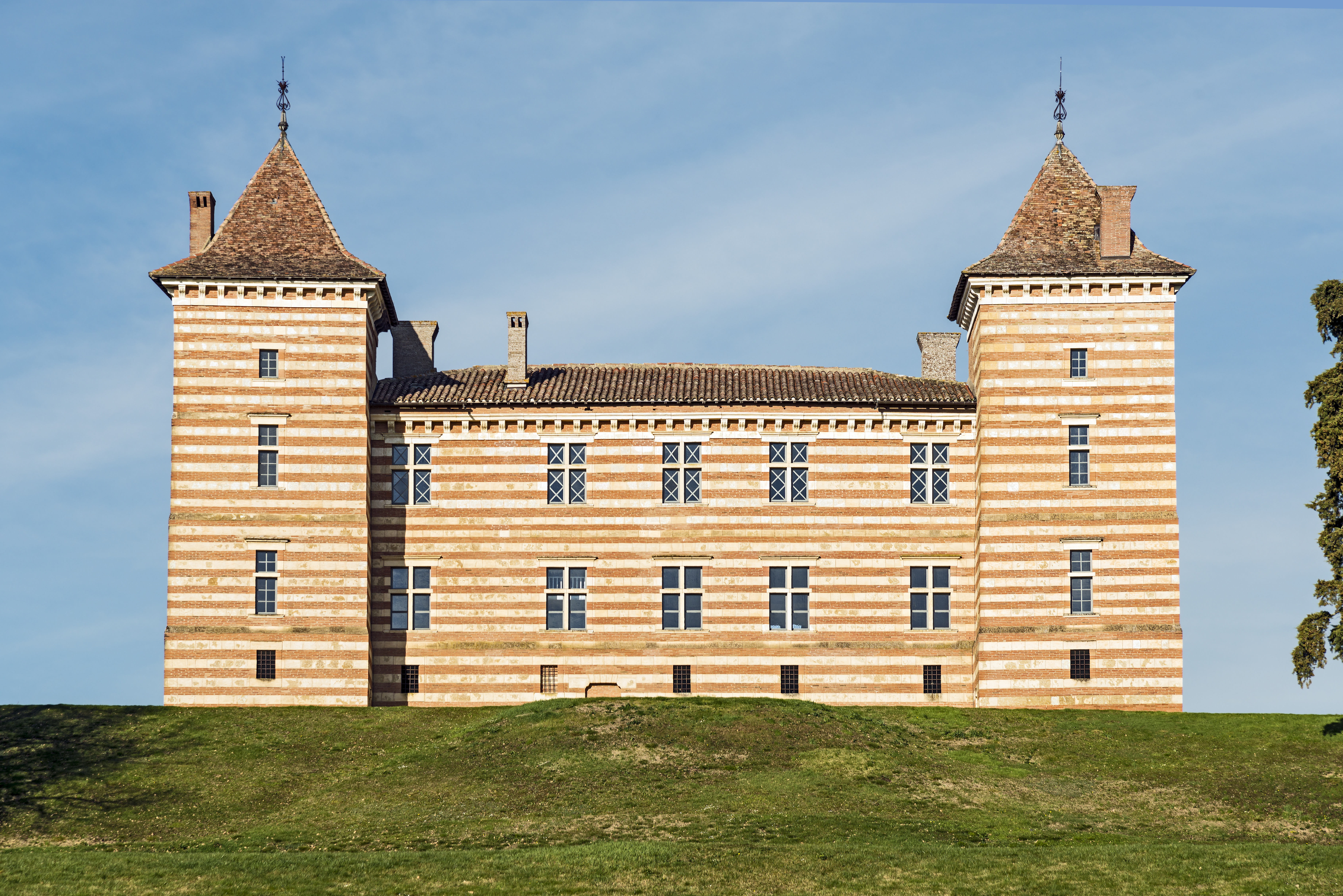 Castle of Laréole, Haute-Garonne, France. South-west facade